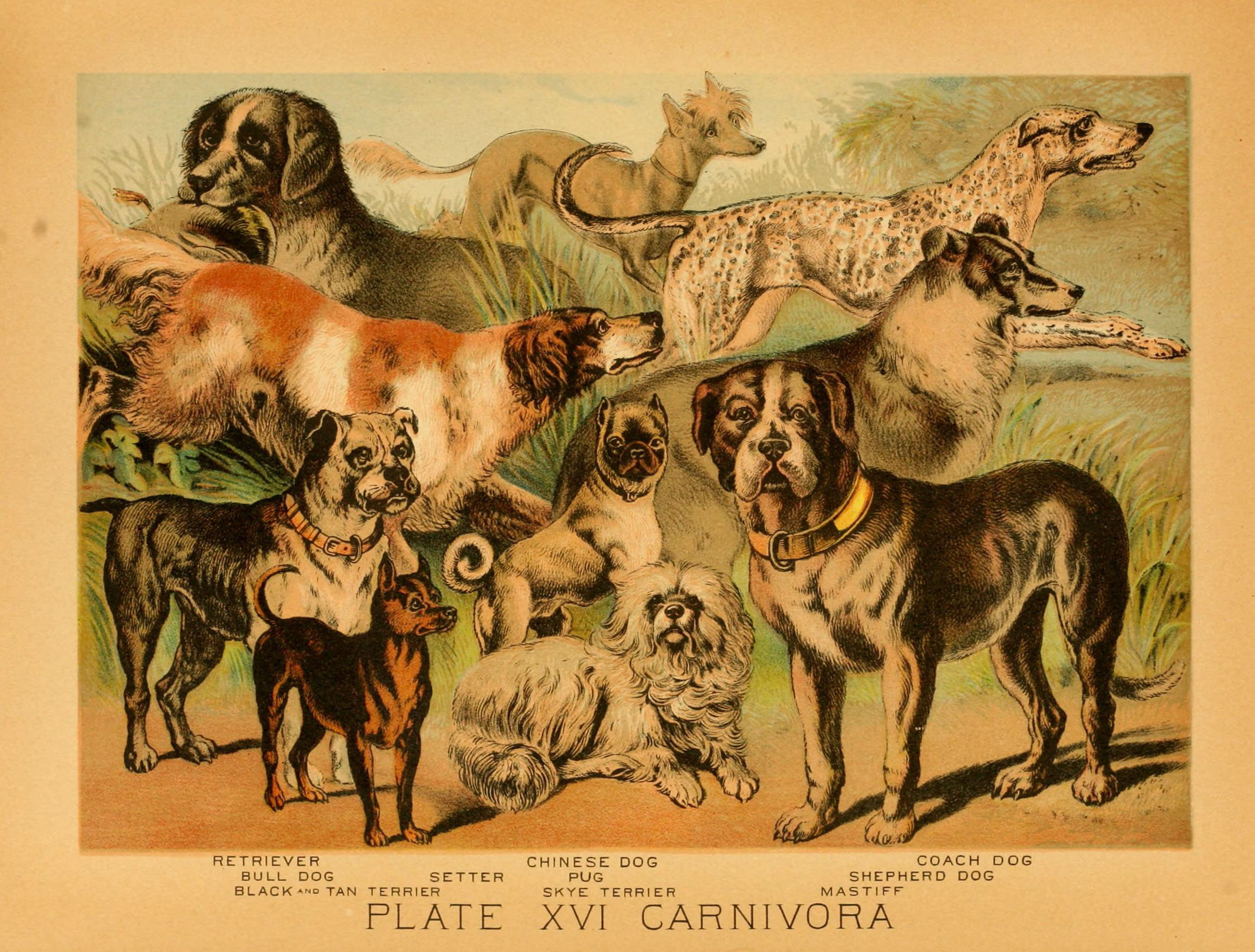 The animal kingdom; based upon the writings of the eminent naturalists, Audubon, Wallace, Brehm, Wood and others.